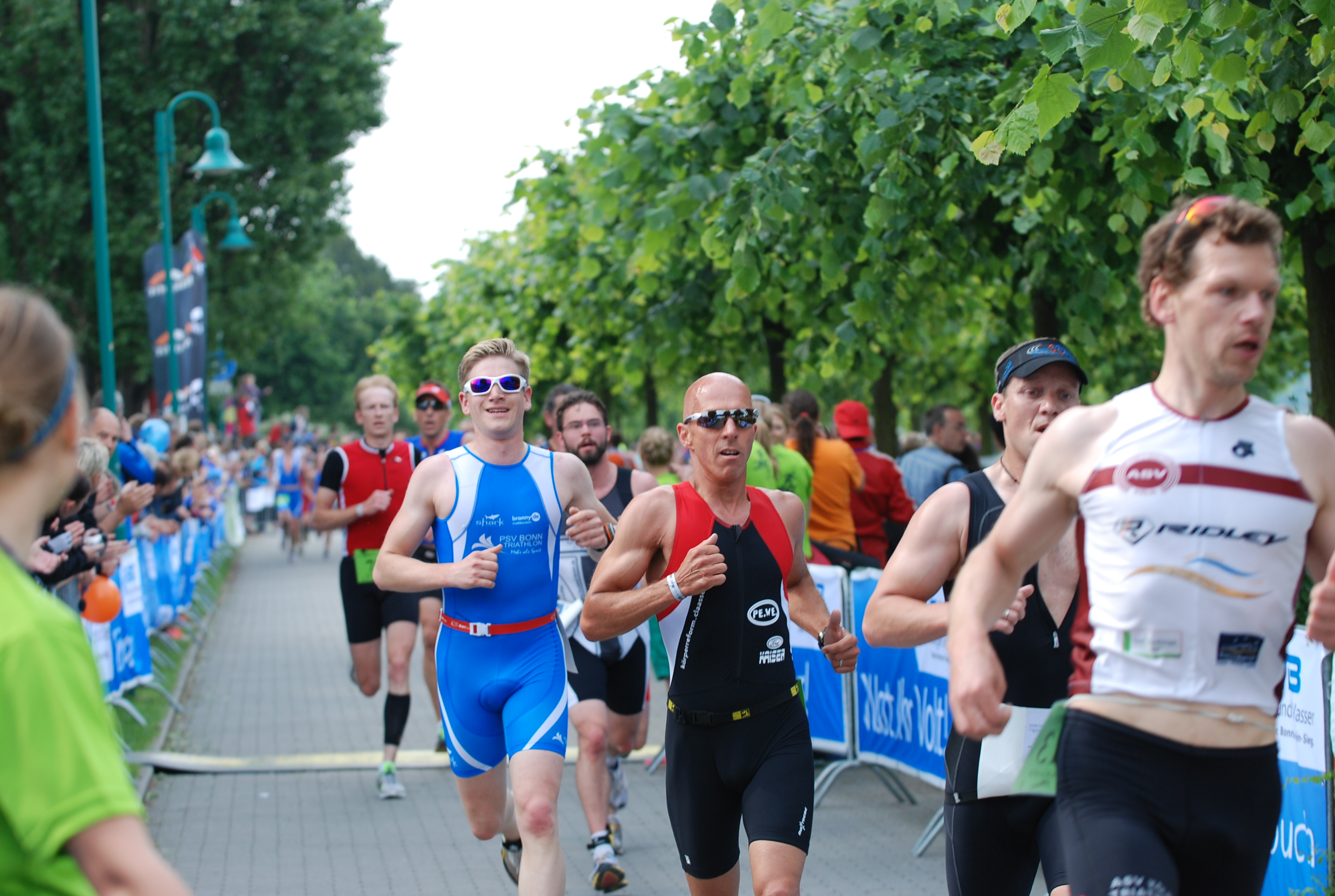 Triathletes on run course at Rhine esplanade of 2013 Bonn Triathlon